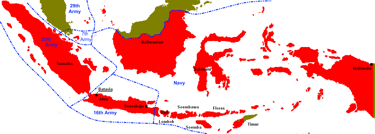 Imperial Japanese areas of control of the Netherlands East Indies (ie, Indonesia)